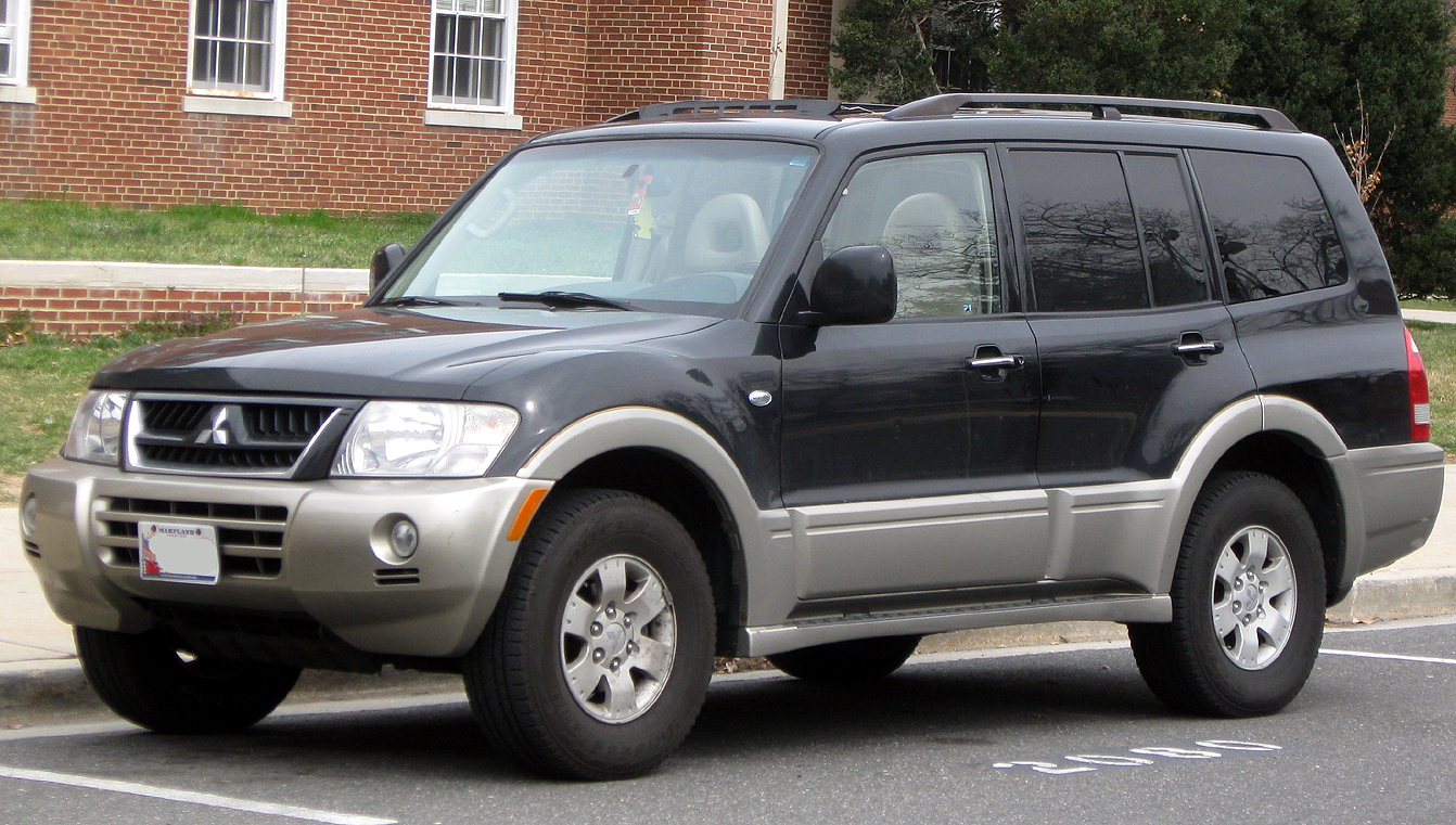 2003-2005 Mitsubishi Montero photographed in College Park, Maryland, USA.